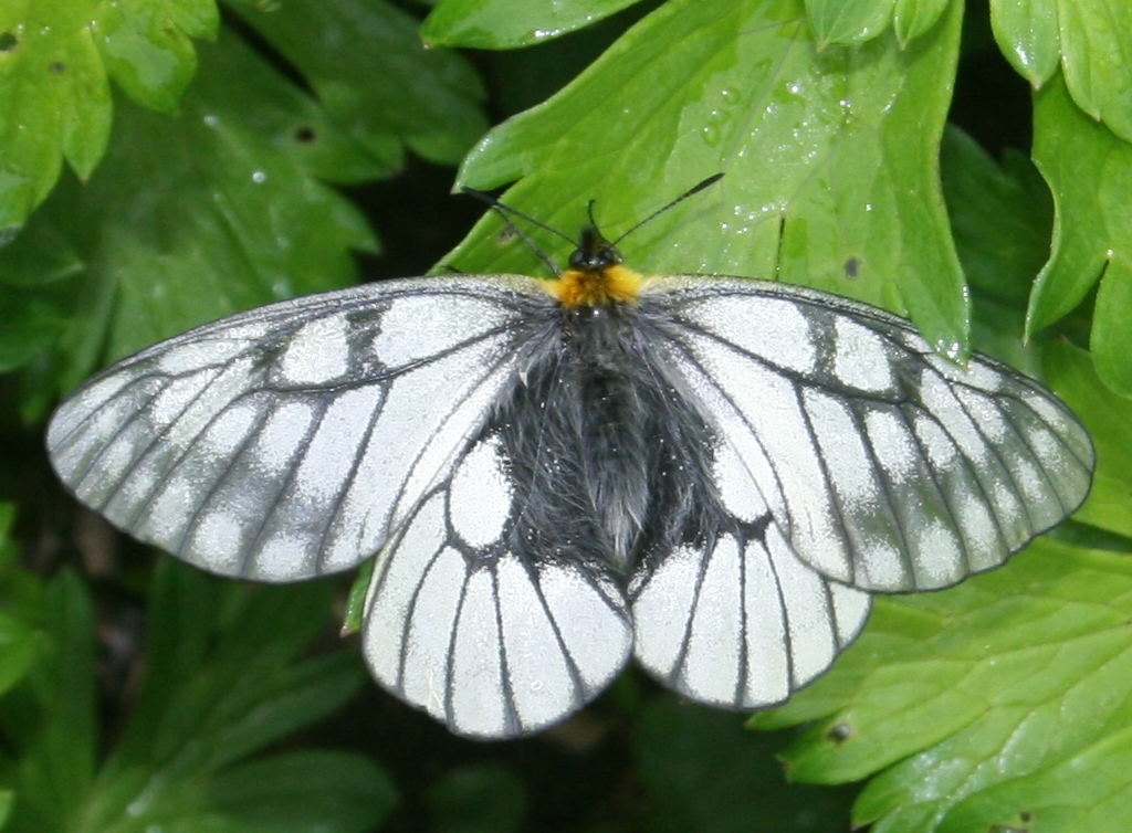 Parnassius glacialis in Mount Ryozen of Suzuka Mountains